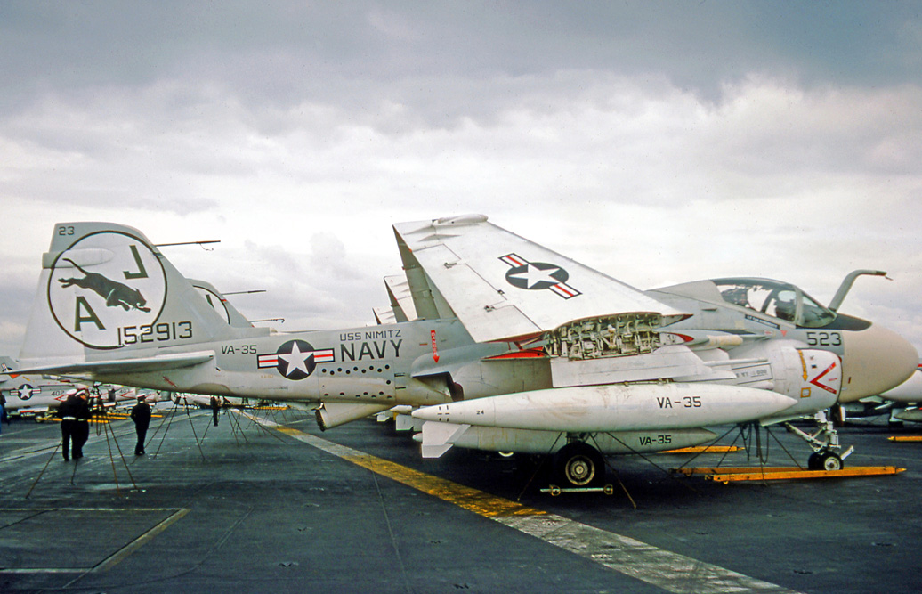 Grumman KA-6D Intruder 152913 of VA-35 aboard USS Nimitz CVN-68 in the Firth of Forth Scotland in 1975